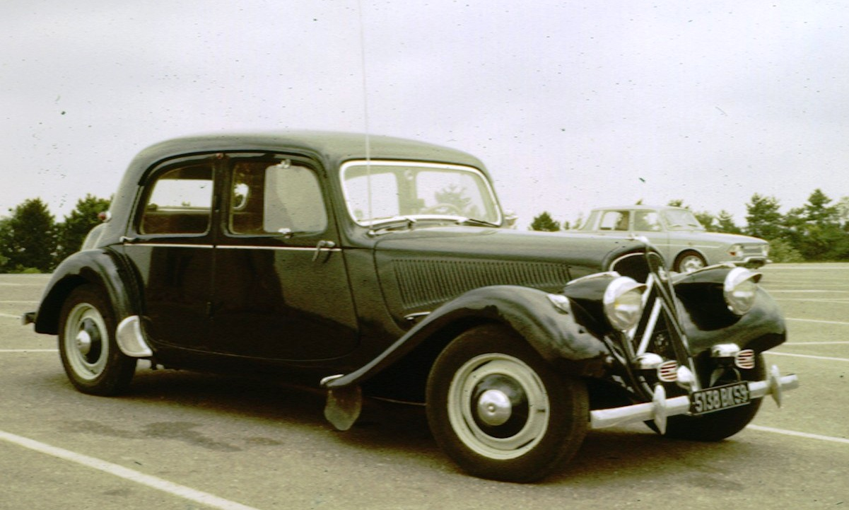 Citroen Traction. The car in the background is a Renault 10